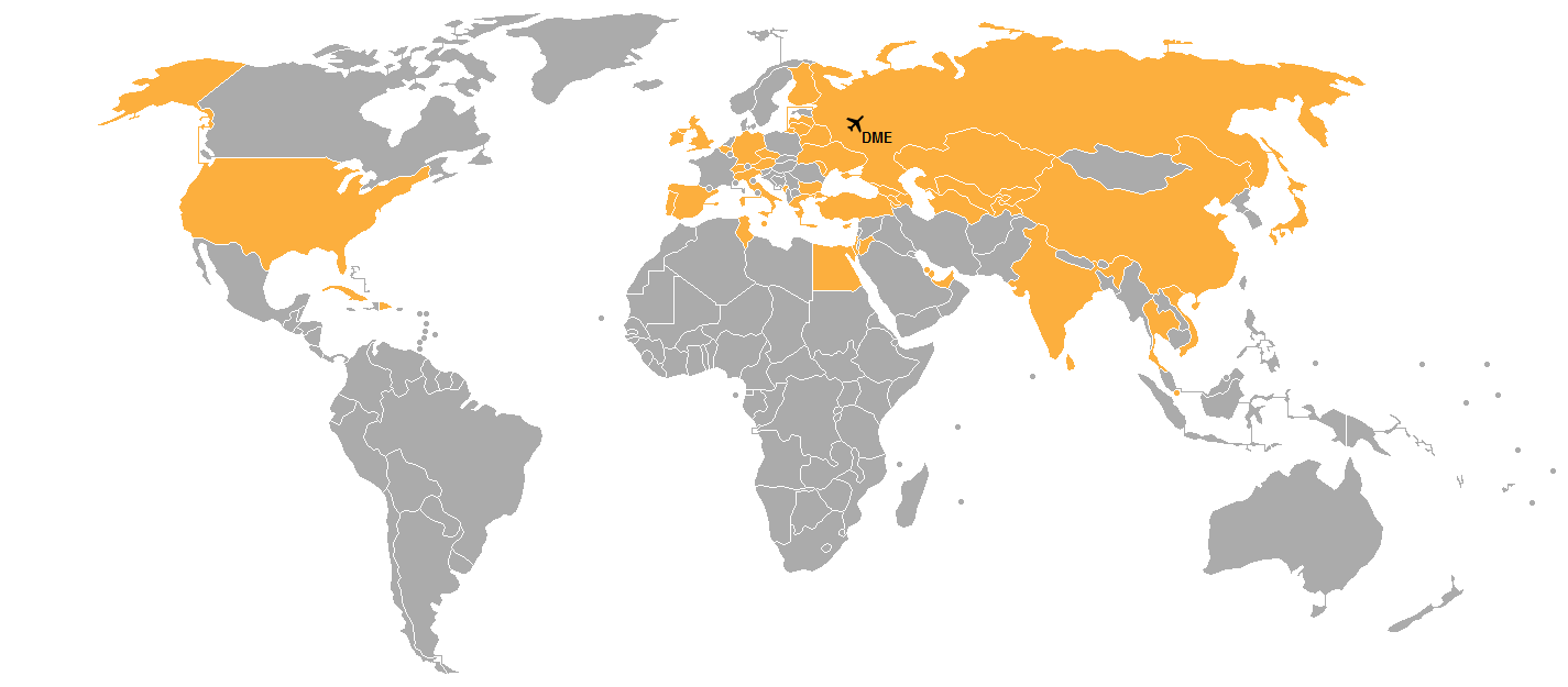 A map of countries served as destinations of flights from Moscow Domodedovo Airport